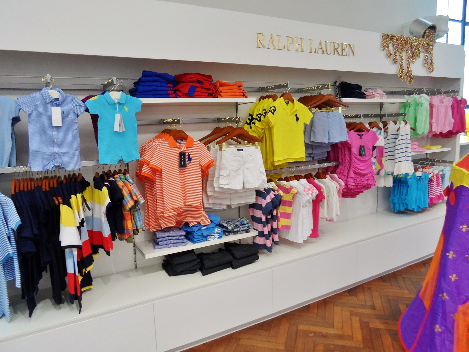 Ralph Lauren children clothing in children's clothing department of Auckland, New Zealand-based department store Smith & Caughey's Queen Street branch in 2013.